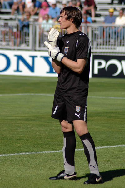 Photo of soccer player, Mauro Goicoechea.